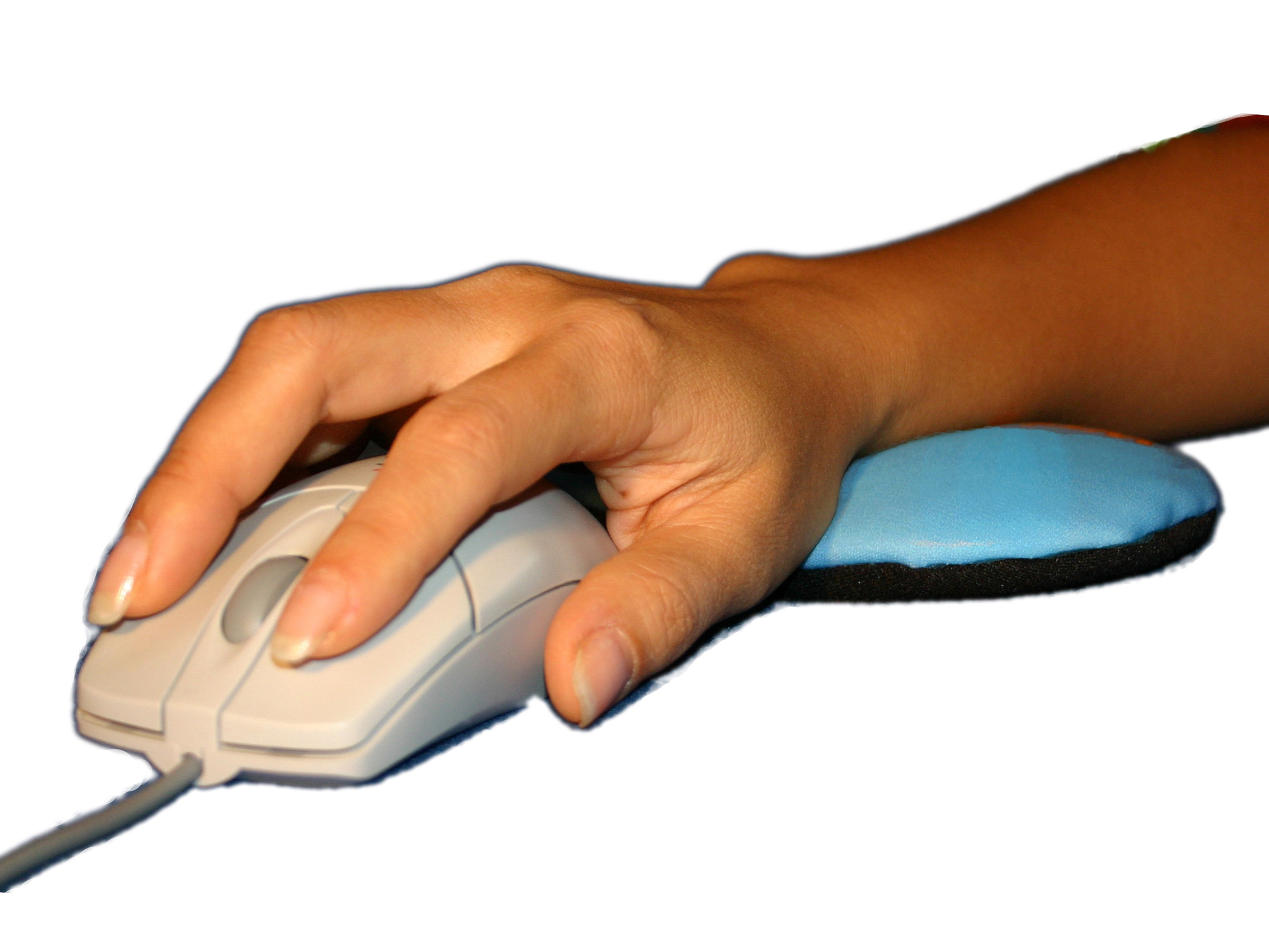 hand on wrist rest pad without silicone gel for pc mouse or keyboard